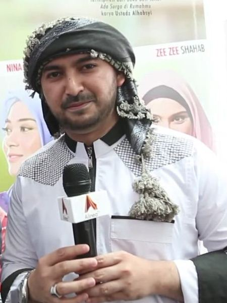 Ustad Ahmad Alhabsyi when interviewed related to his latest film, Ada Surga di Rumahmu (2015)